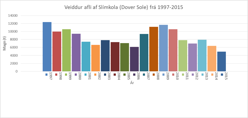 Fishing of Dover Sole from 1997-2015